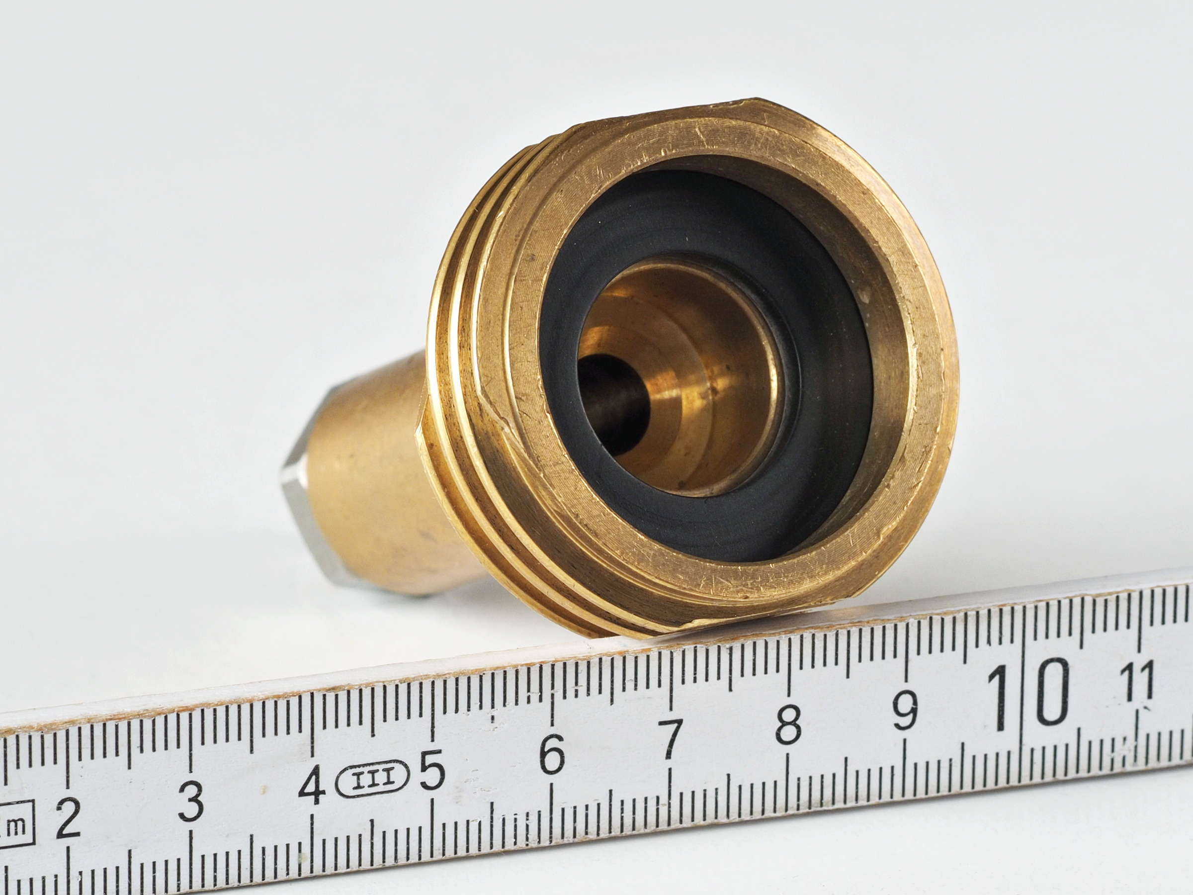 ACME connector for LPG fueling